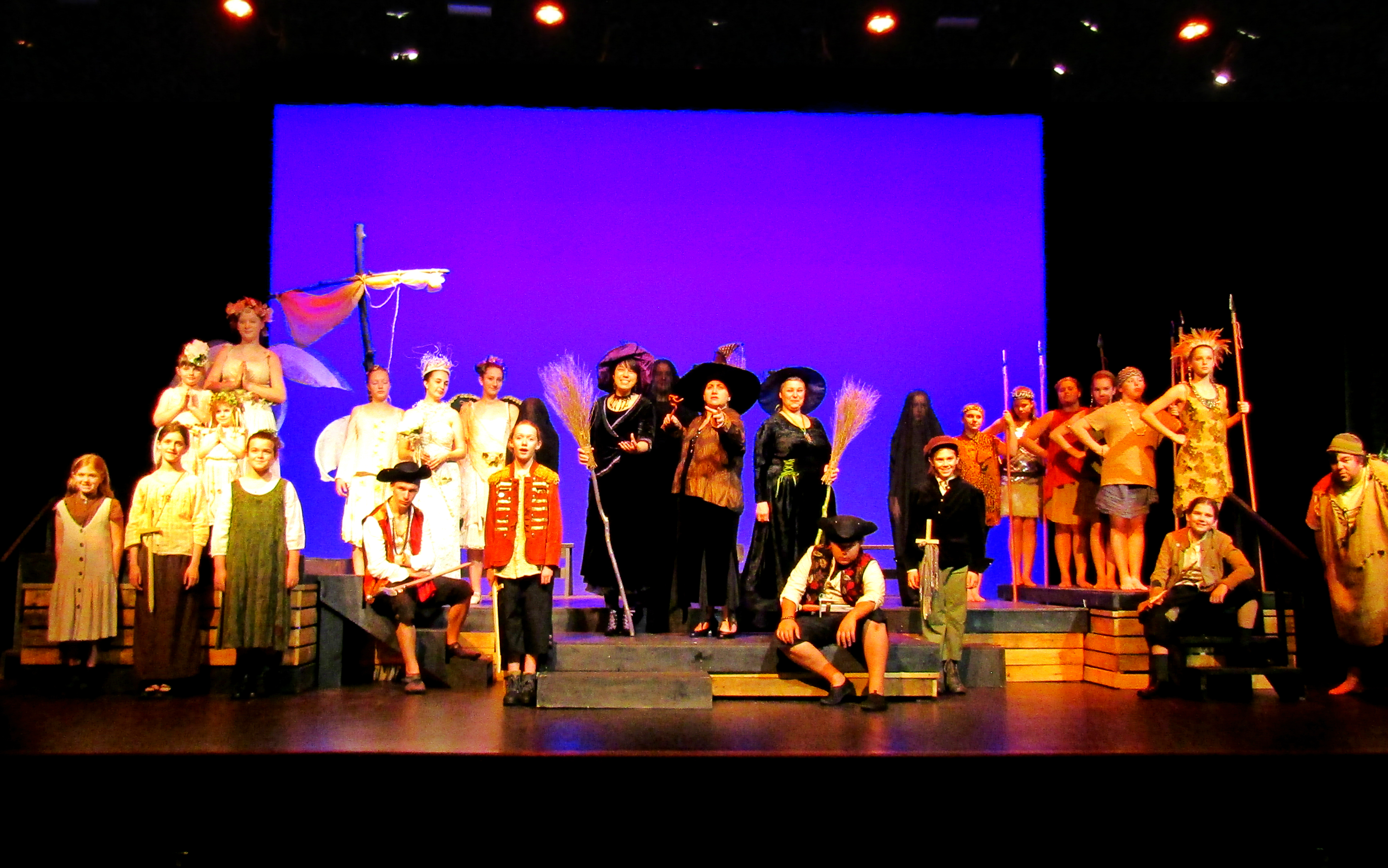 cast of musical Orchard of Hide & Seek by Richard ODonnell